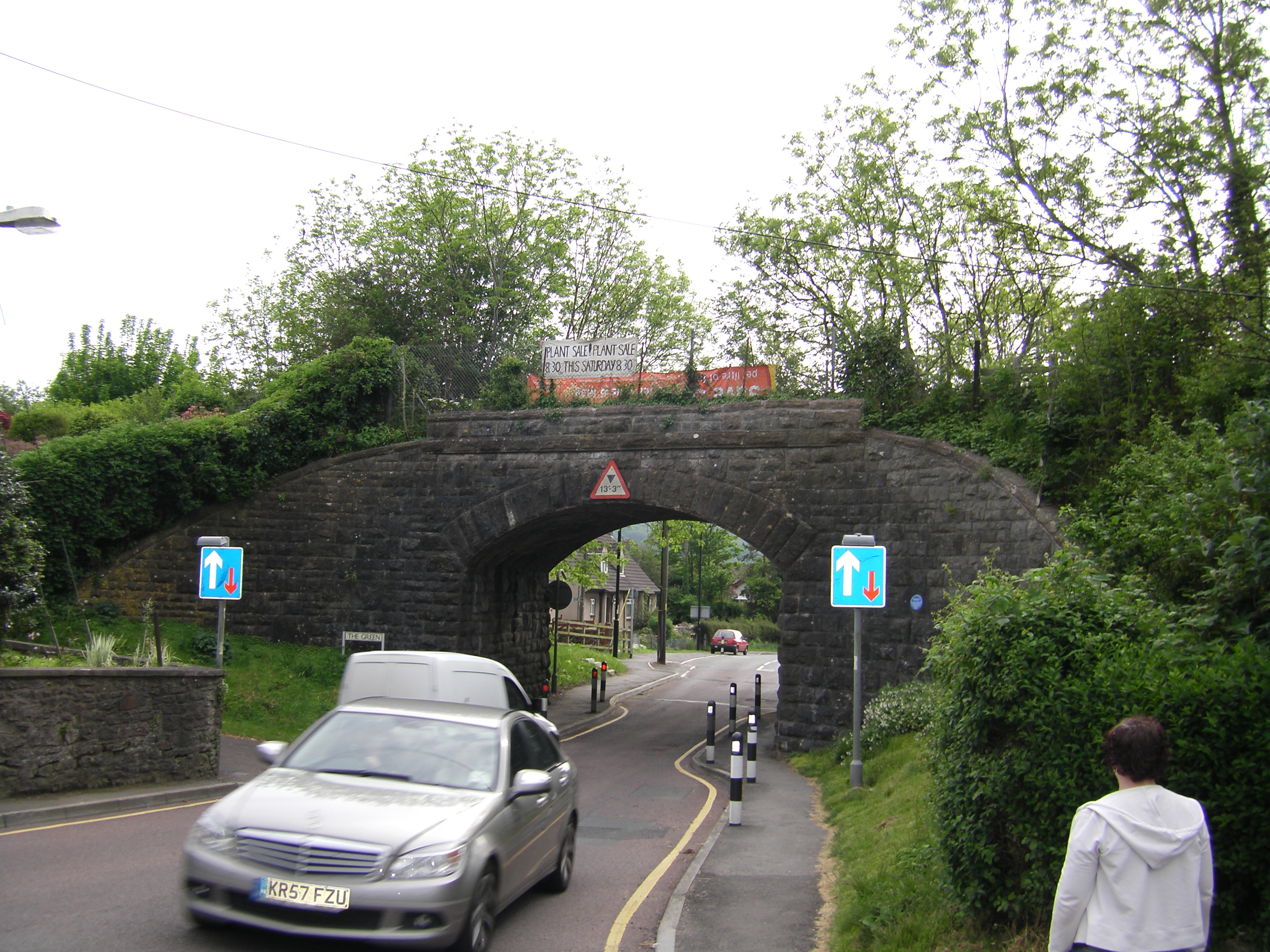 Source: Gareth Smart. Winscombe-railway-bridge